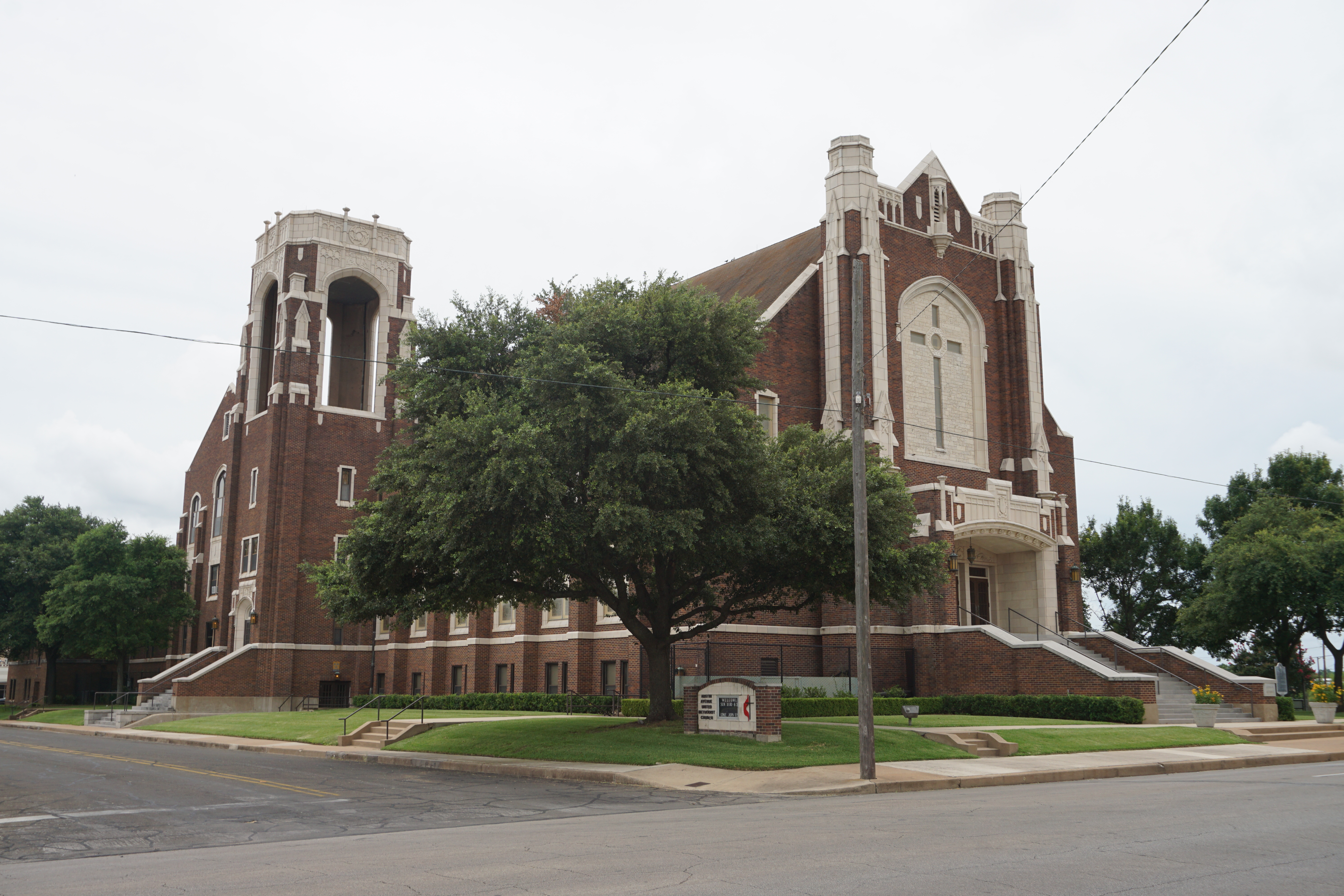 Austin Avenue United Methodist Church in Waco, Texas (United States).